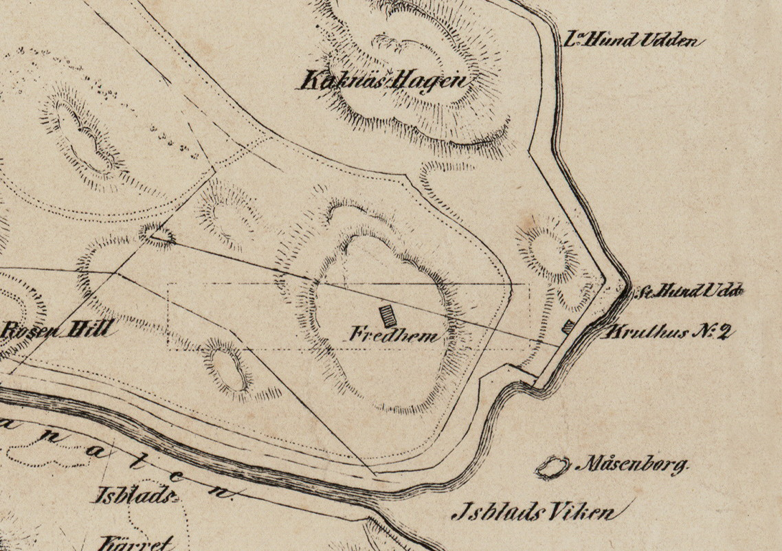 KARTA Kongl. Djurgården. [år 1845? el. 1844] Kruthuset på Hundudden